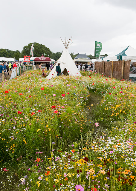 Wild Flower Meadow, New Forest Show A display by Suttons Seeds .